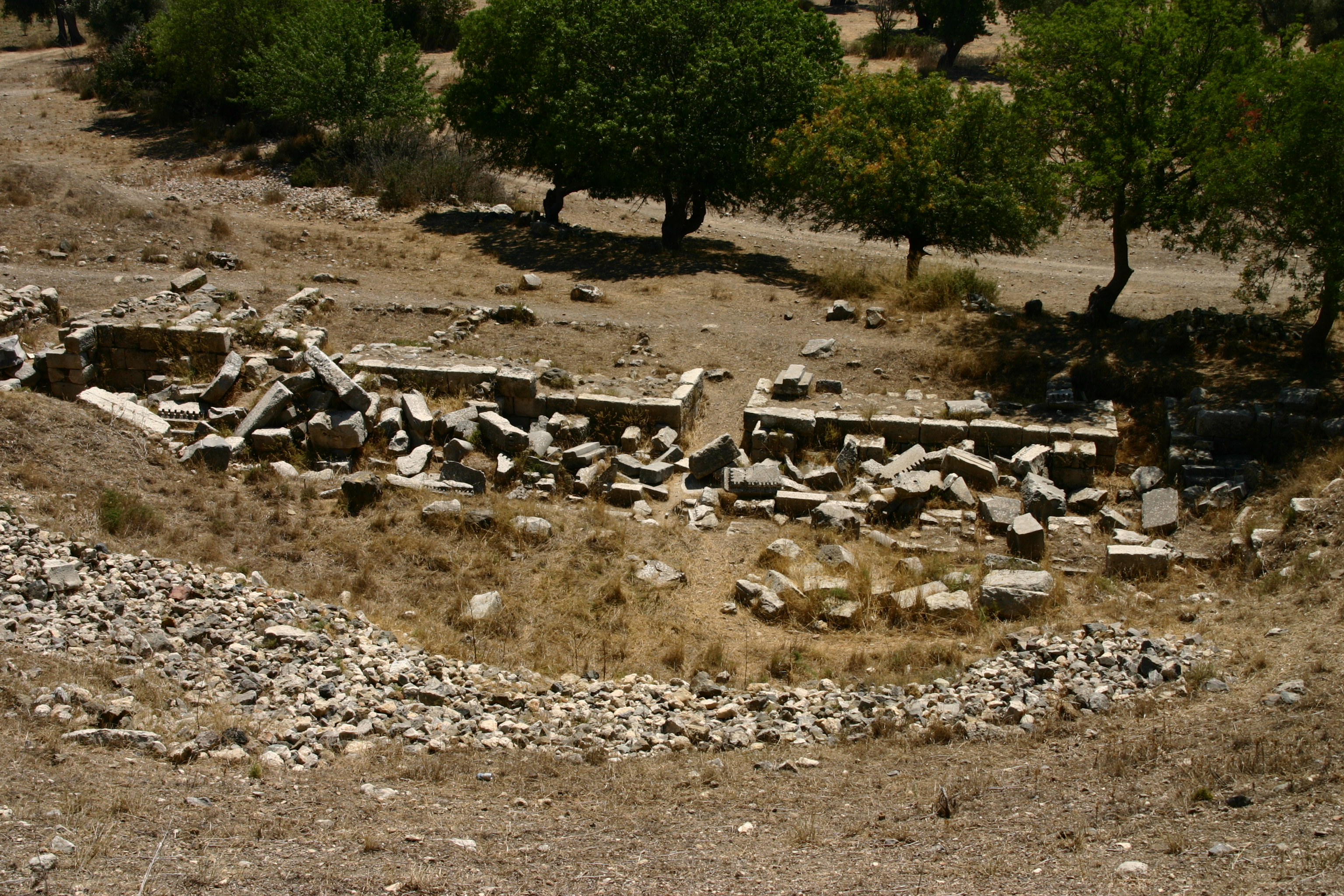 Ruins of the theatre of Teos